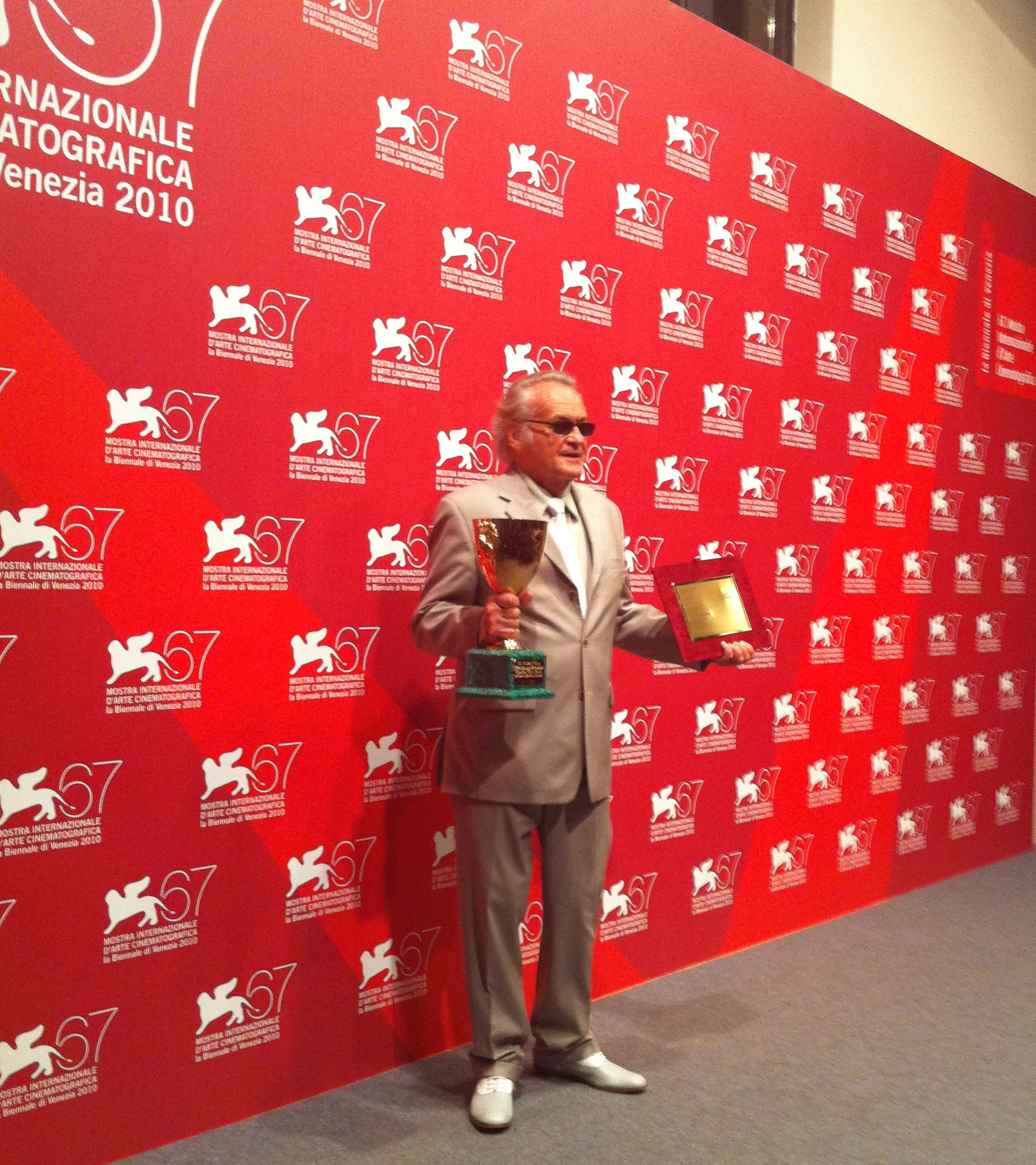 Director Jerzy Skolimowski with Special Jury Prize and Volpi Cup at the 2010 Venice Film Festival